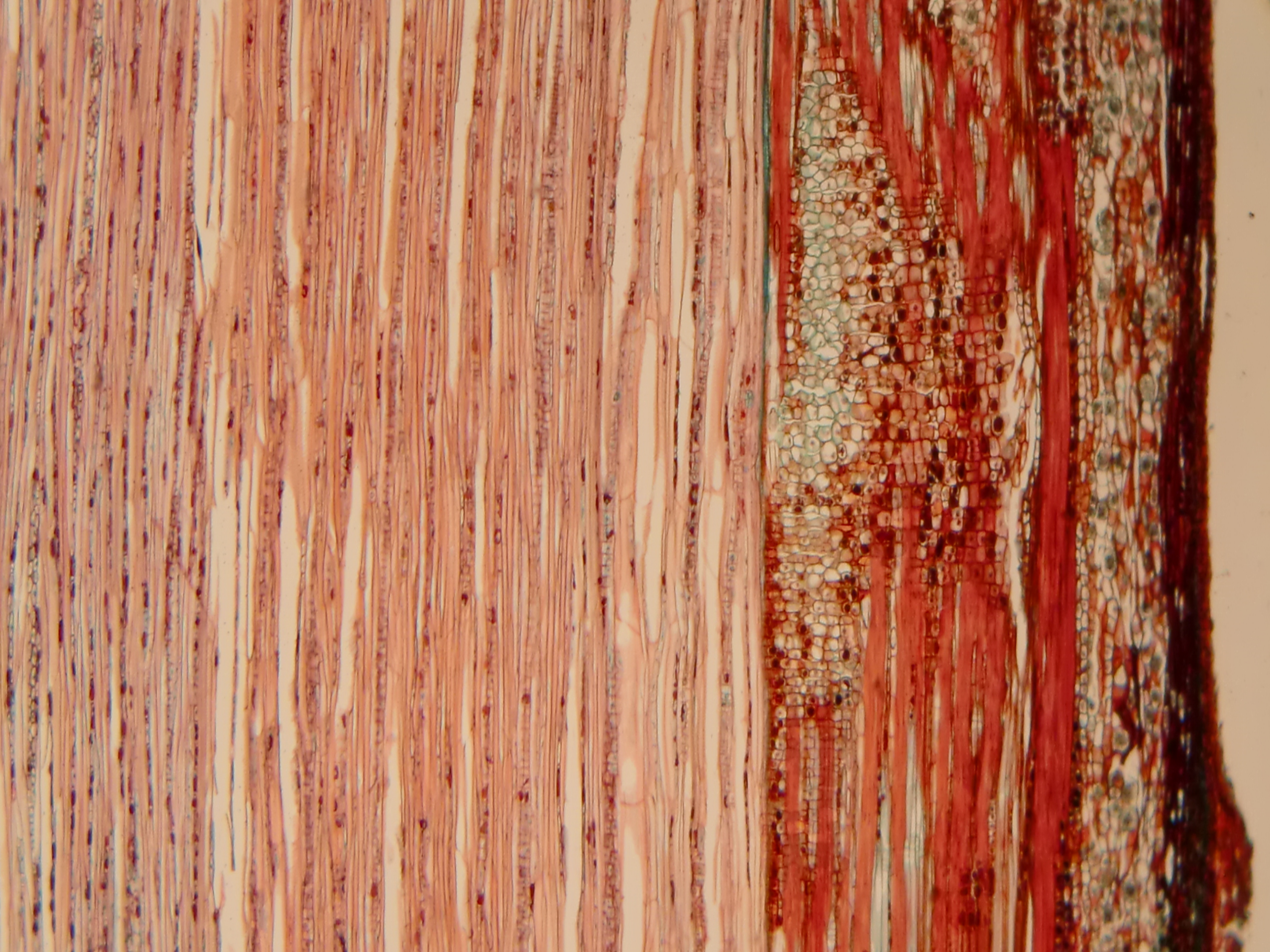 Radial section of old trunk of Tilia cordata